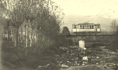 Biella-Mongrando railway, bridge on Ingagna